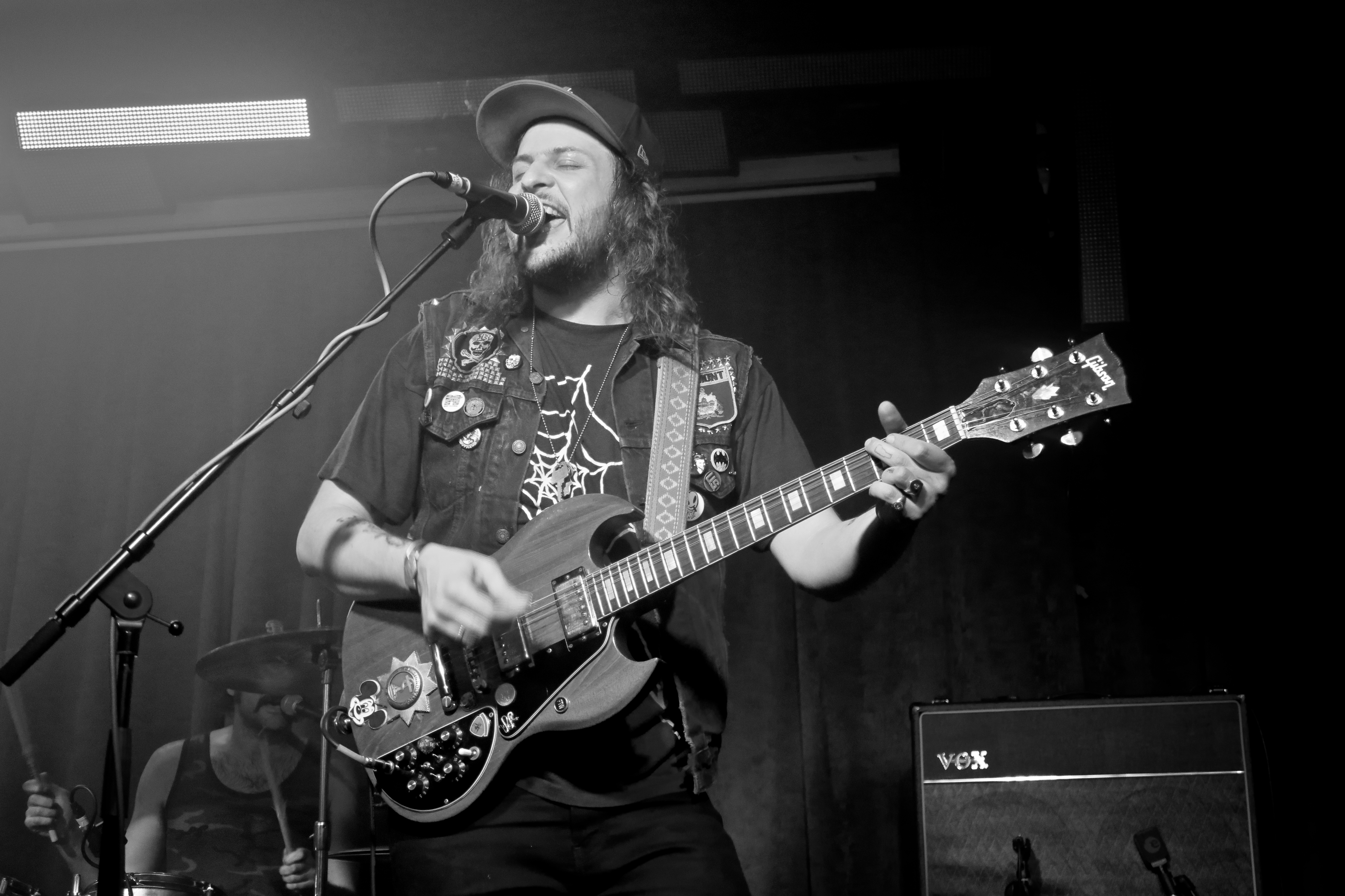 King Tuff performing in 2014